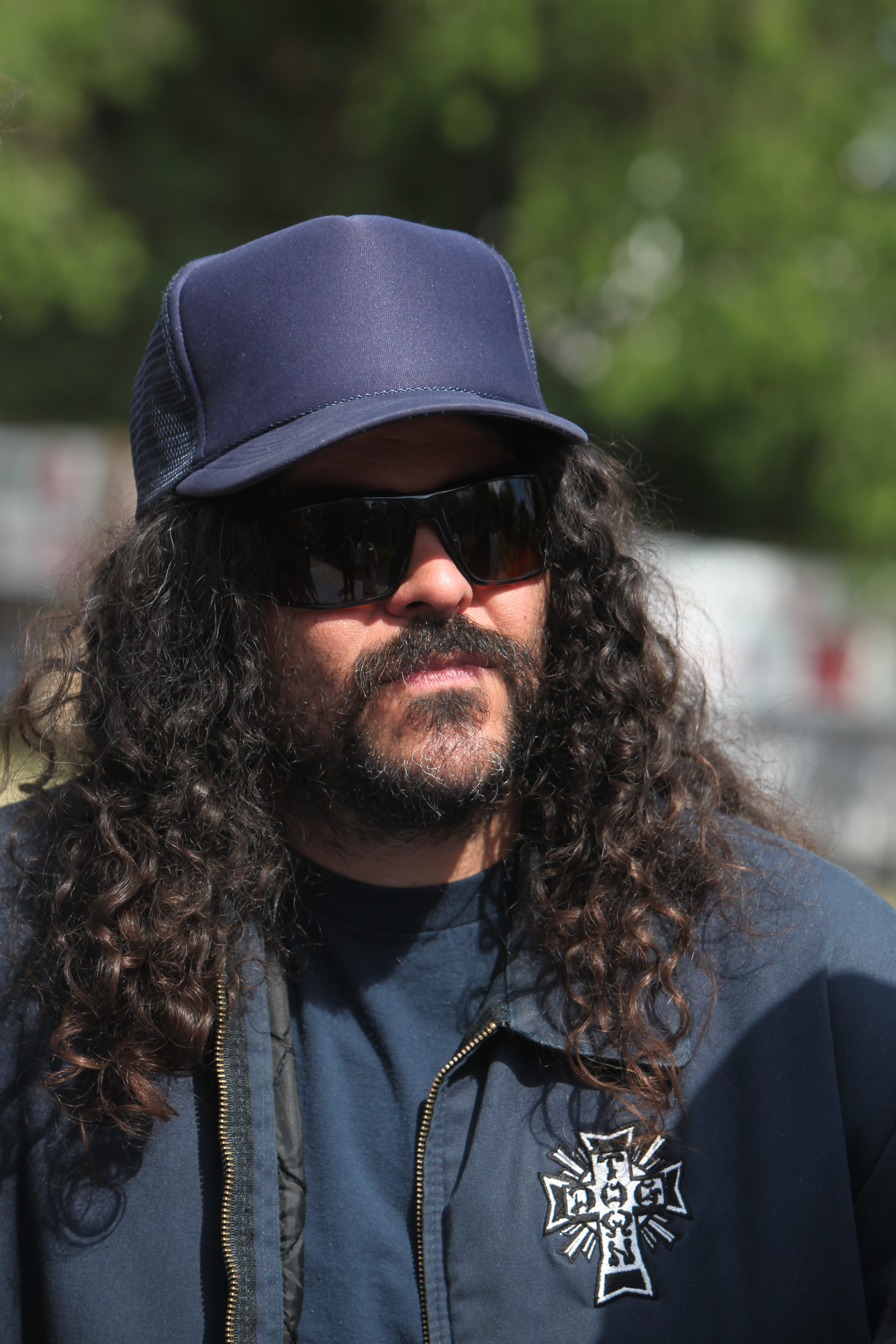 Brant Bjork with Kyuss at the Eurockéennes de Belfort 2011 The making of this document was supported by Wikimedia CH.(Submit your project!) For all the files concerned, please see the category Supported by Wikimedia CH.